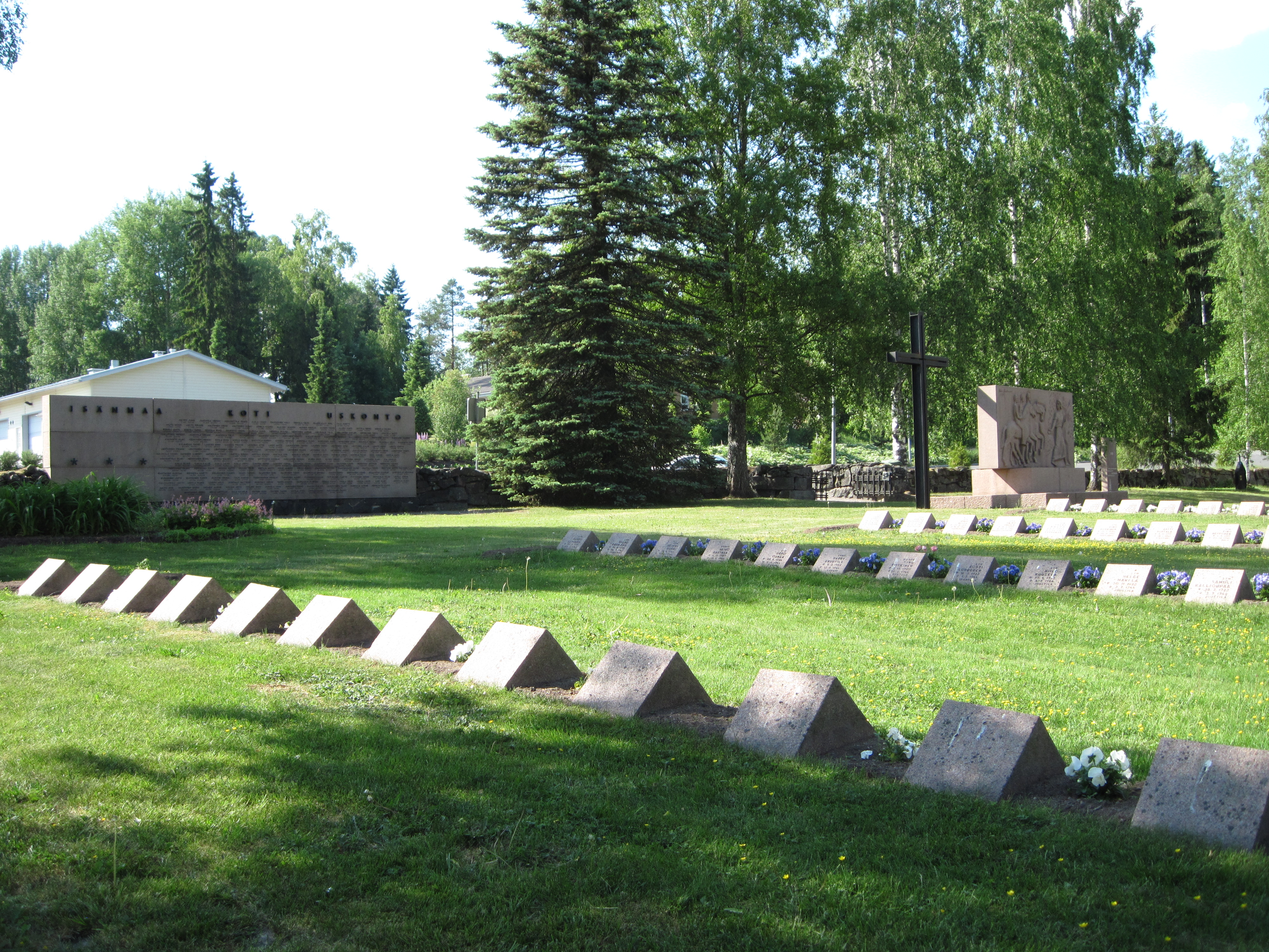 Military cemetary at church in Alastaro, Finland